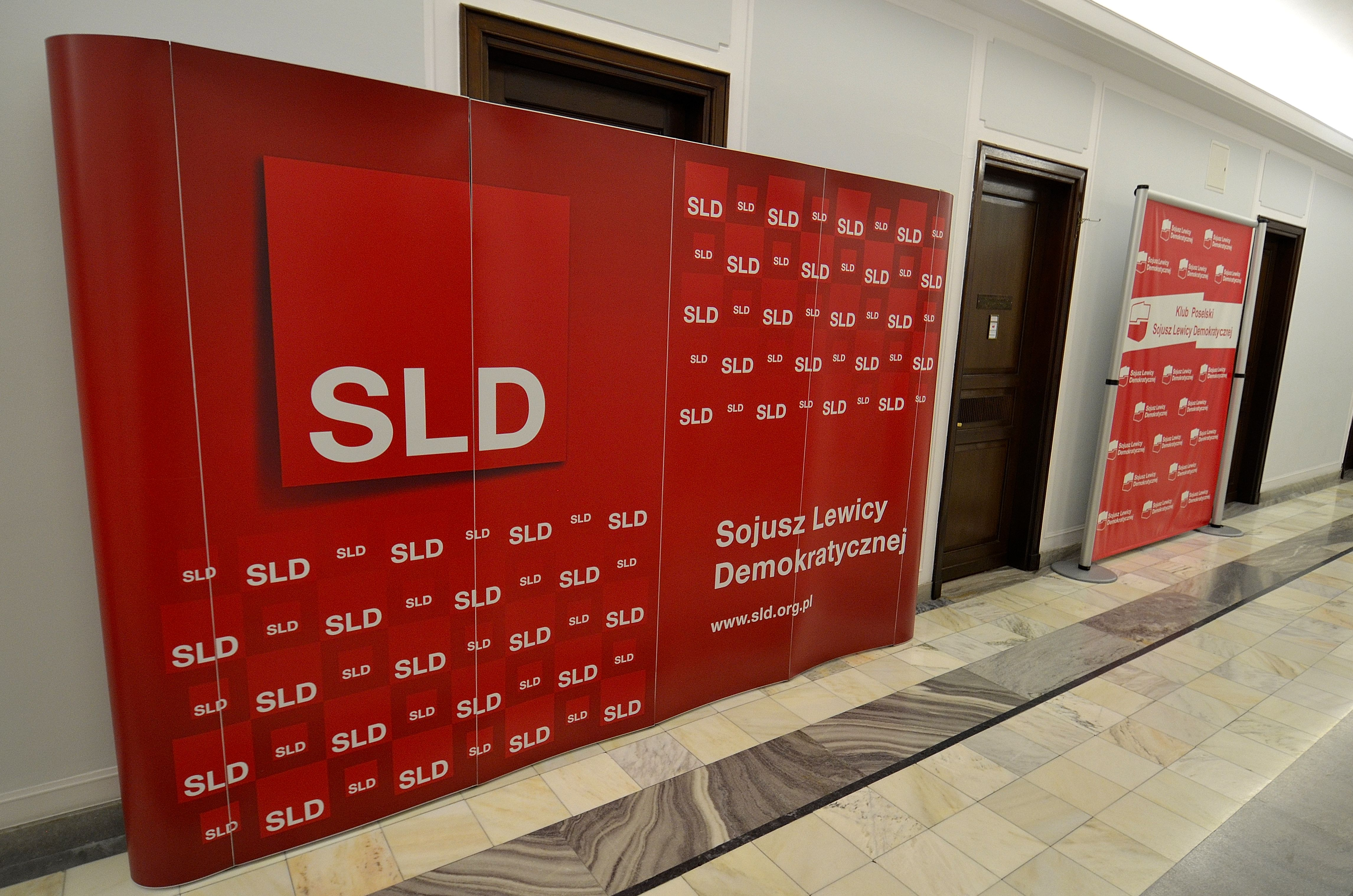 Seat of the Democratic Left Alliance parliamentary club in the Sejm